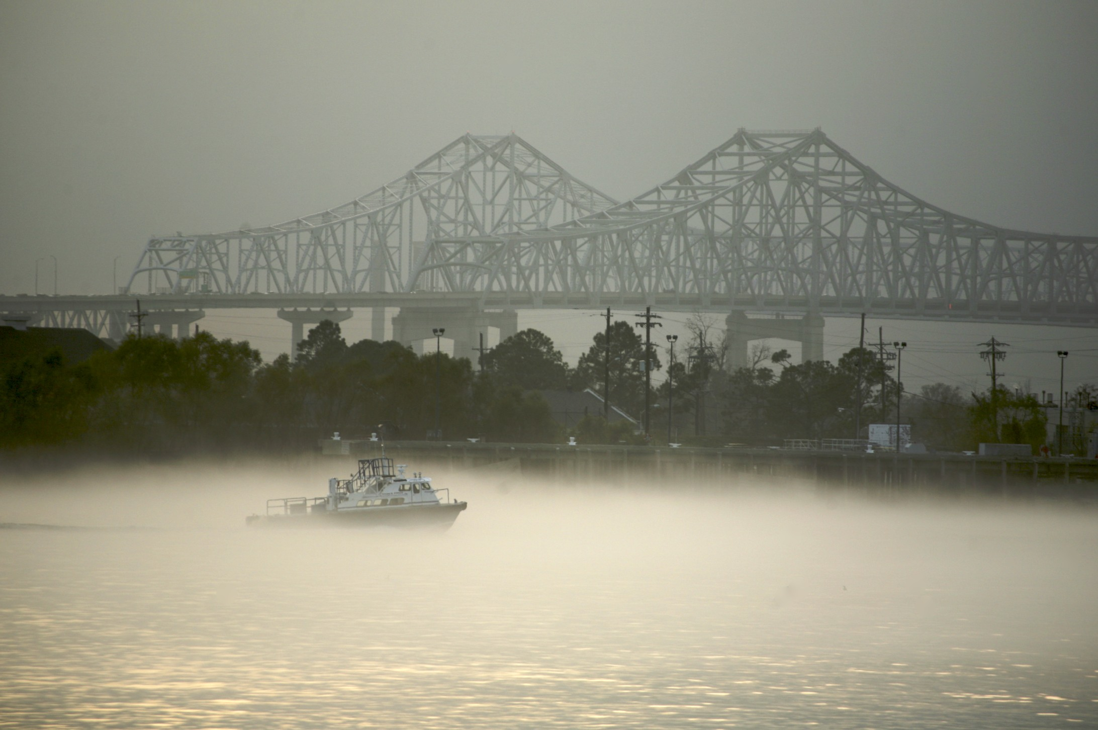 New Orleans. Fog on the Mississippi River with the Crescent City Connection bridge in the background.